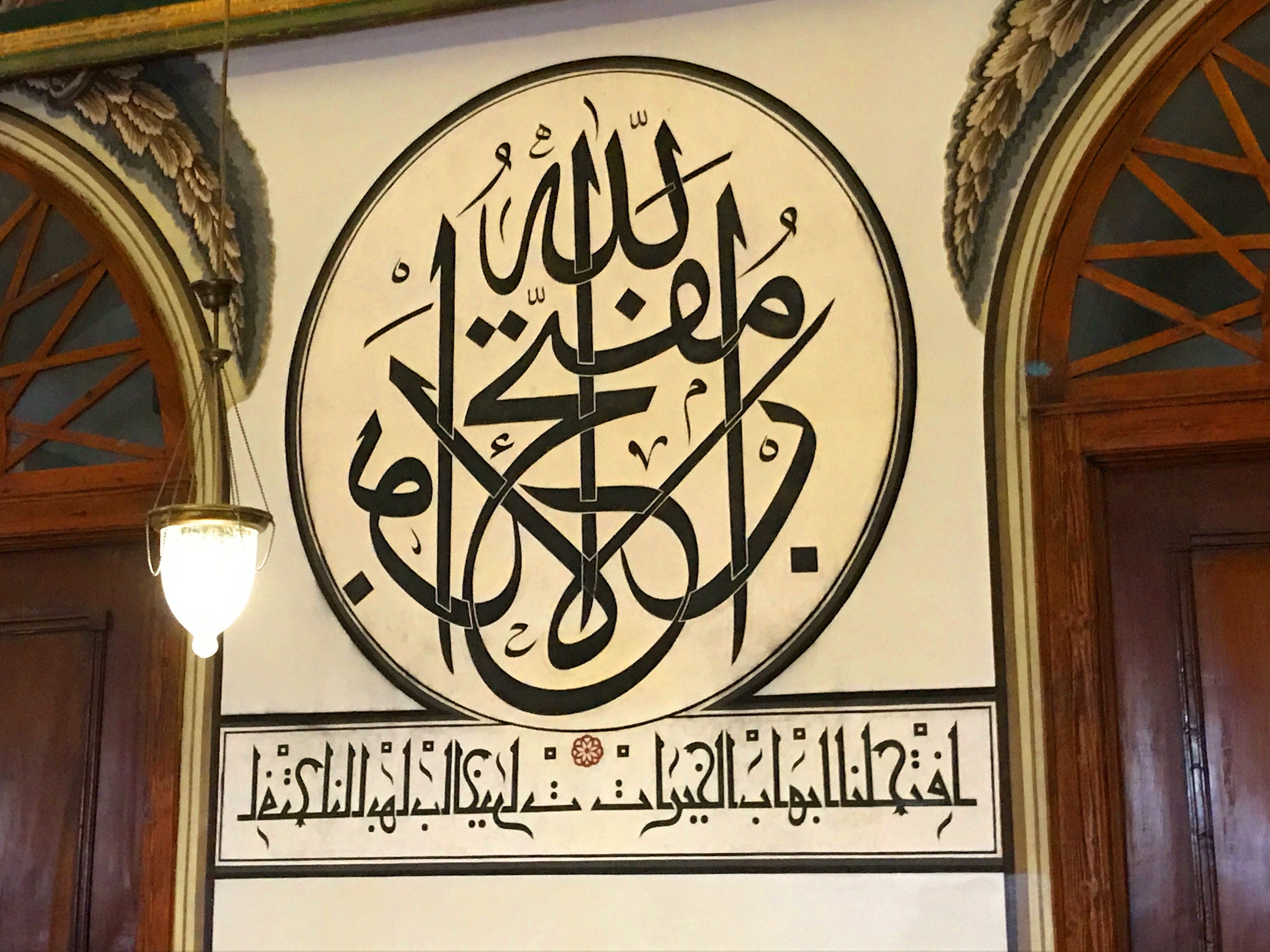 Arabic Calligraphy on "Ulu Cami" pillars, Bursa, Turkey. Verses of Quran, Hadith, and wisdom. Ulu Cami is built in the Seljuk style, it was ordered by the Ottoman Sultan Bayezid I and built between 1396 and 1399. The mosque has 20 domes and 2 minarets.